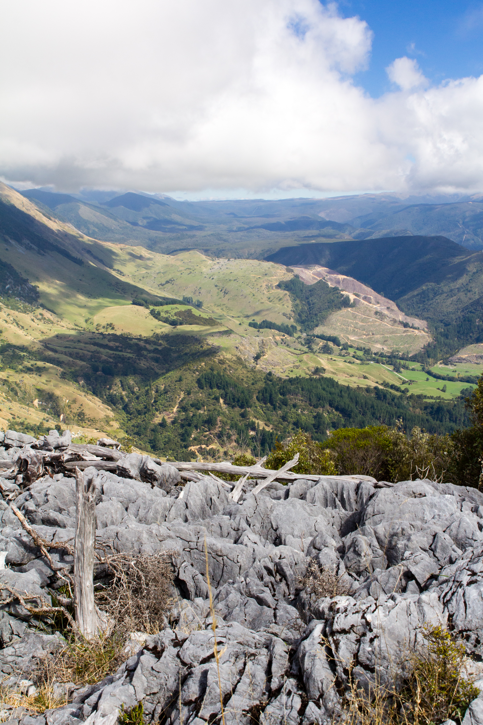 View from the Takaka Hill Walkway towards the upper Takaka river valley